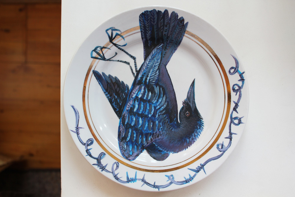 A painting of a falling crow in acrylics on a faience plate.